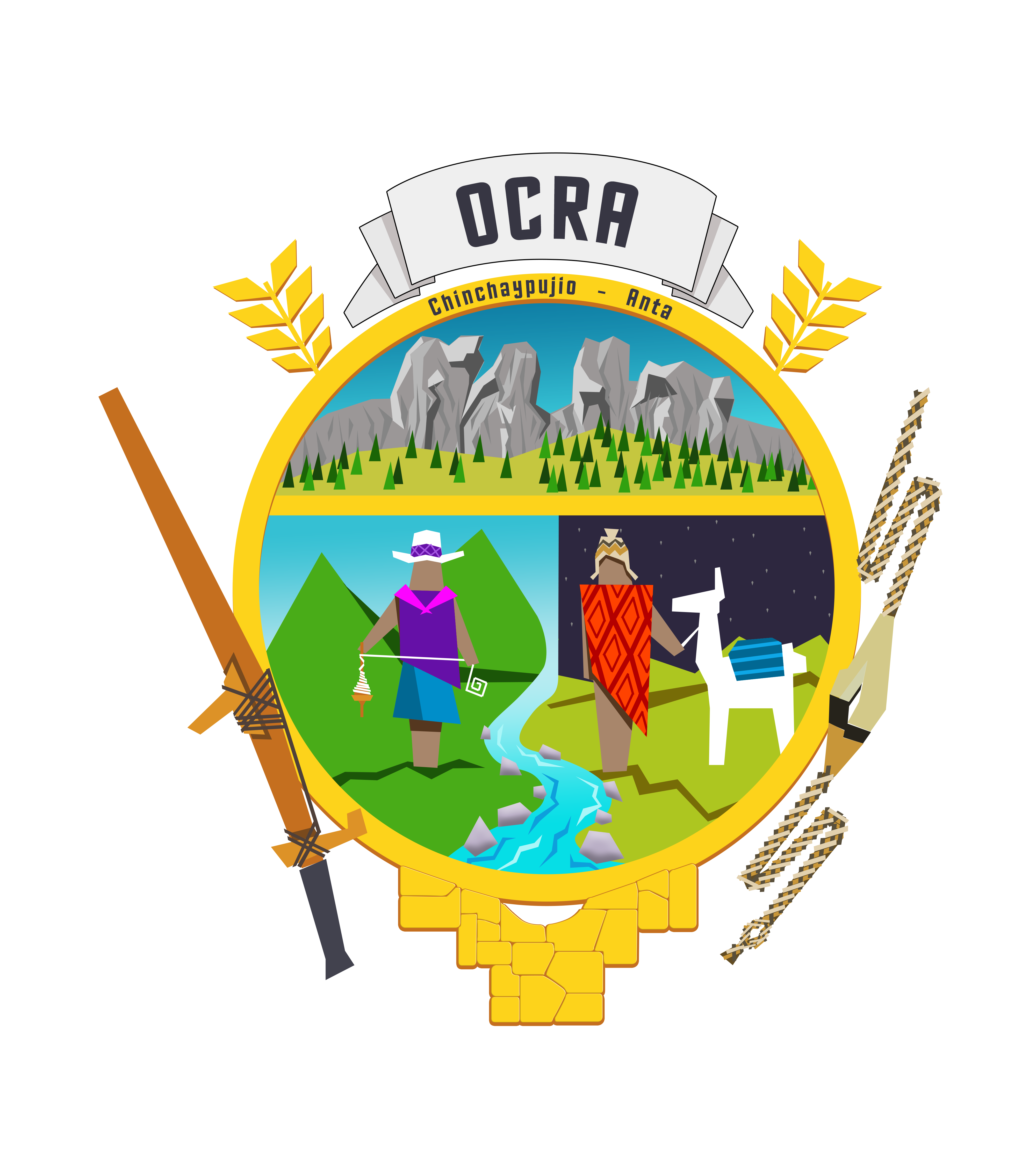 The emblem of Ocra, Chinchaypujio District, Anta Province, Cusco Region in Peru featuring a digging tool, a sling, two Inca people, a Llama, the local rock formation "Roca de Matrimonio", and the Andean Chakana